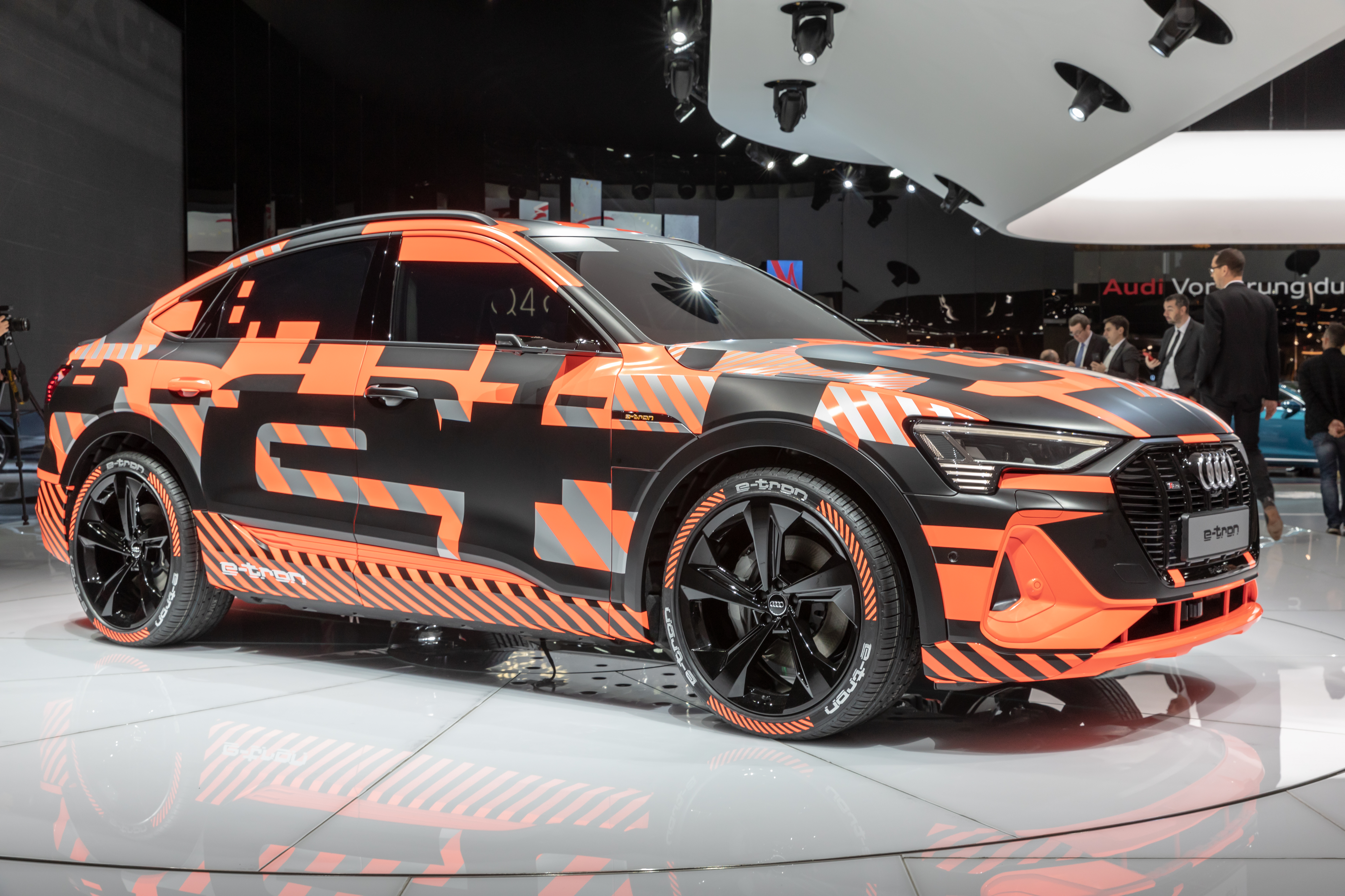 Audi e-tron Sportback at Geneva International Motor Show 2019, Le Grand-Saconnex